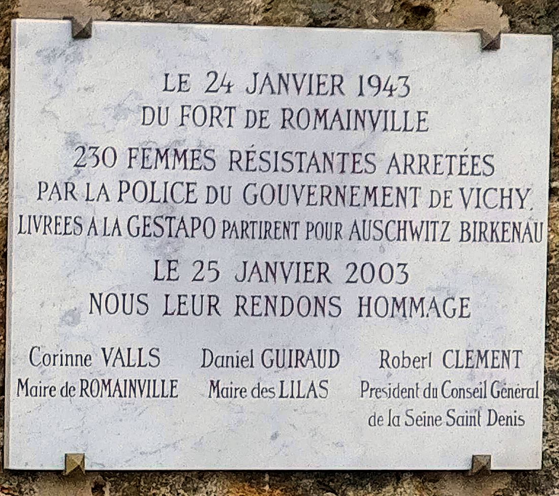 Commemorative plaque for the departure from the Fort de Romainville in Les Lilas on January 24, 1943, of the transport of 230 women to Auschwitz known as "the 31,000"